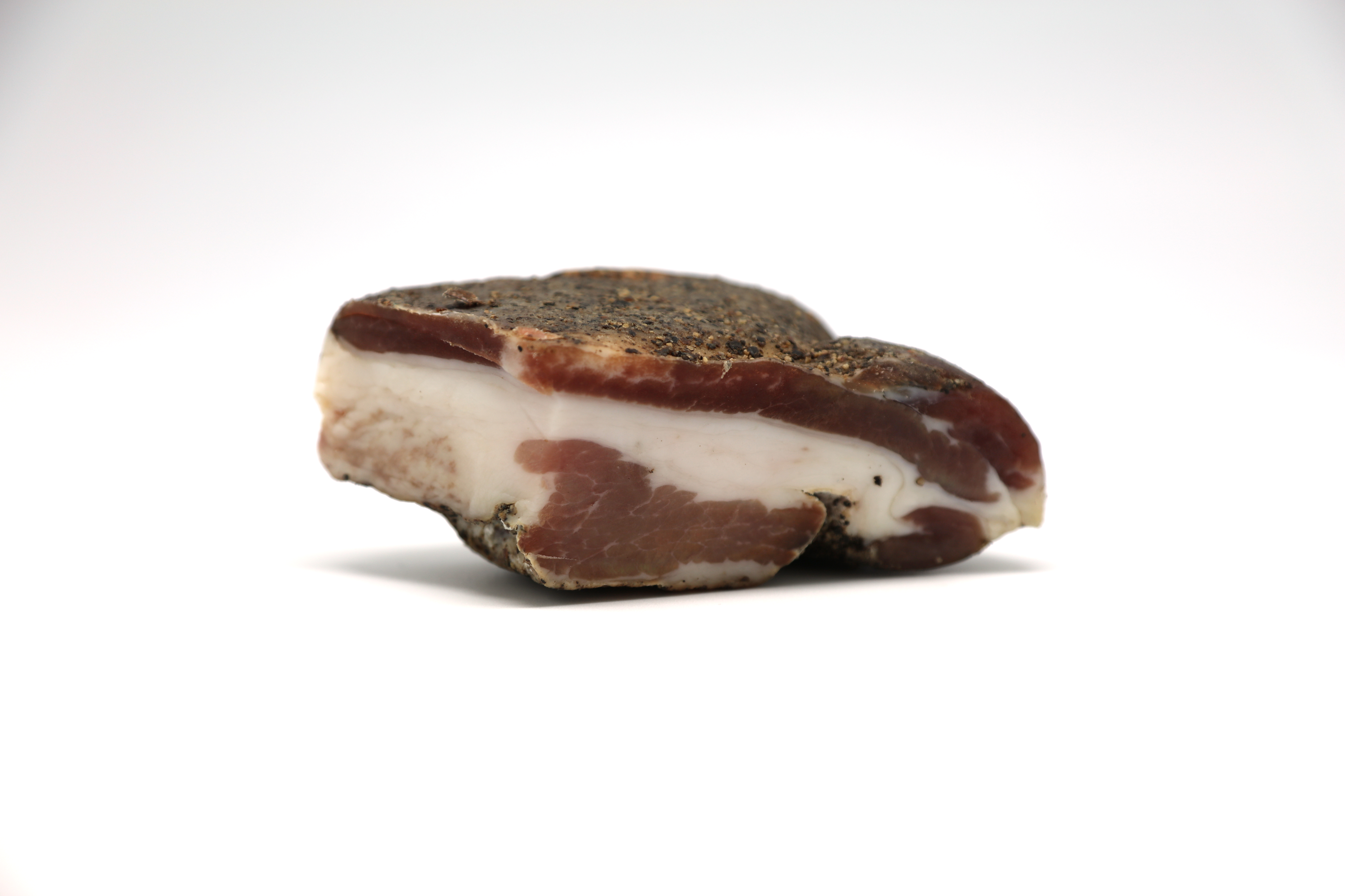 Guanciale - lard from pork cheek.